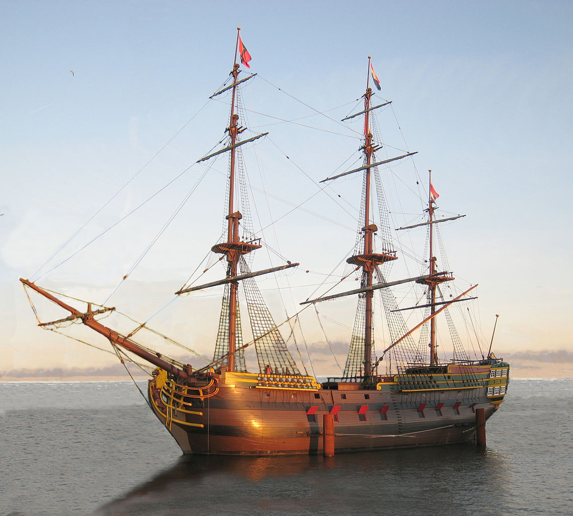 Three-masted Hoeker ship